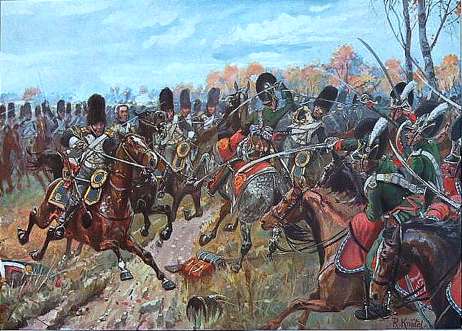 Battle of Hanau